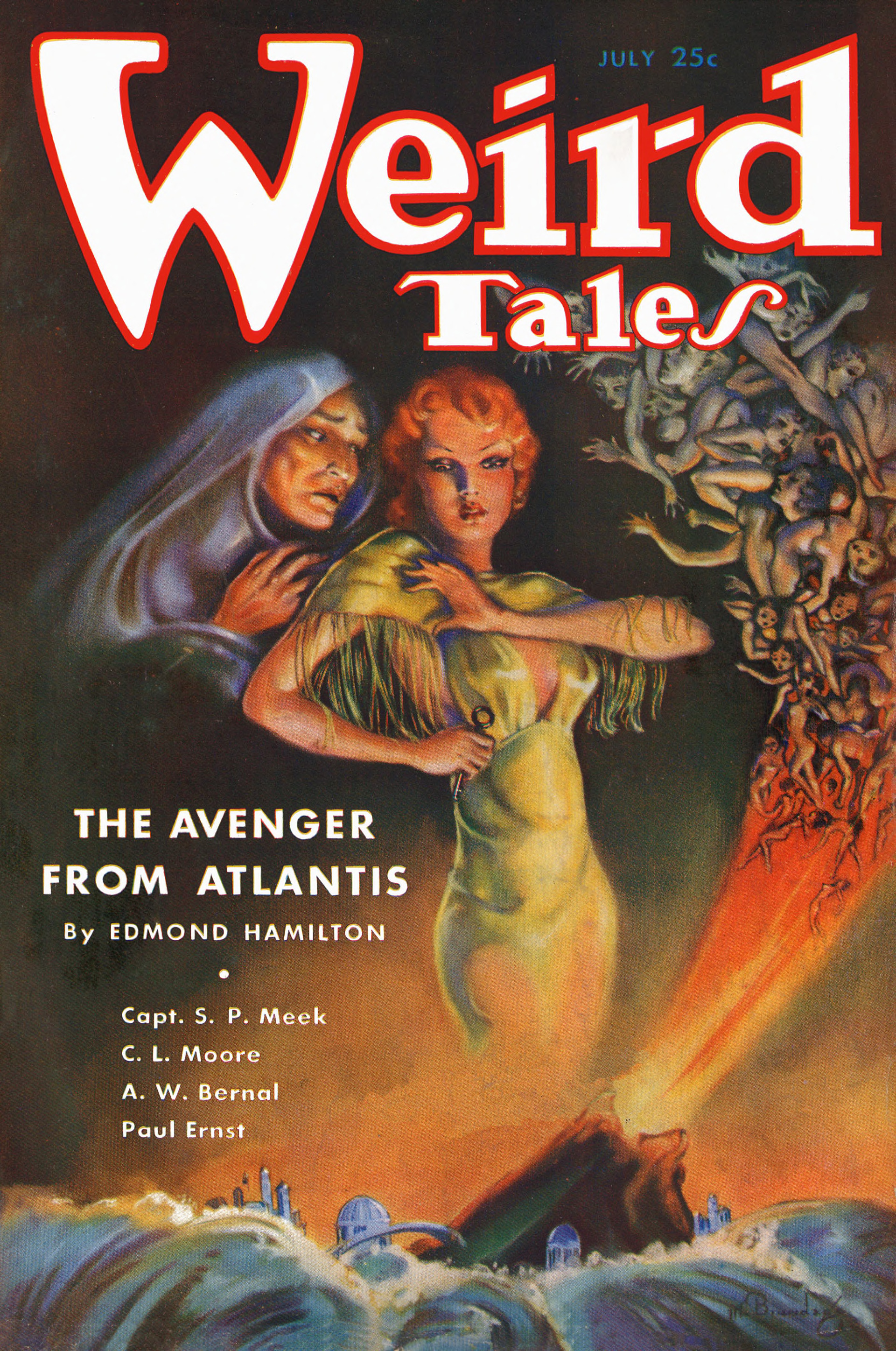 Cover of the pulp magazine Weird Tales (July 1935, vol. 26, no. 1) featuring The Avenger from Atlantis by Edmond Hamilton. Cover art by Margaret Brundage.